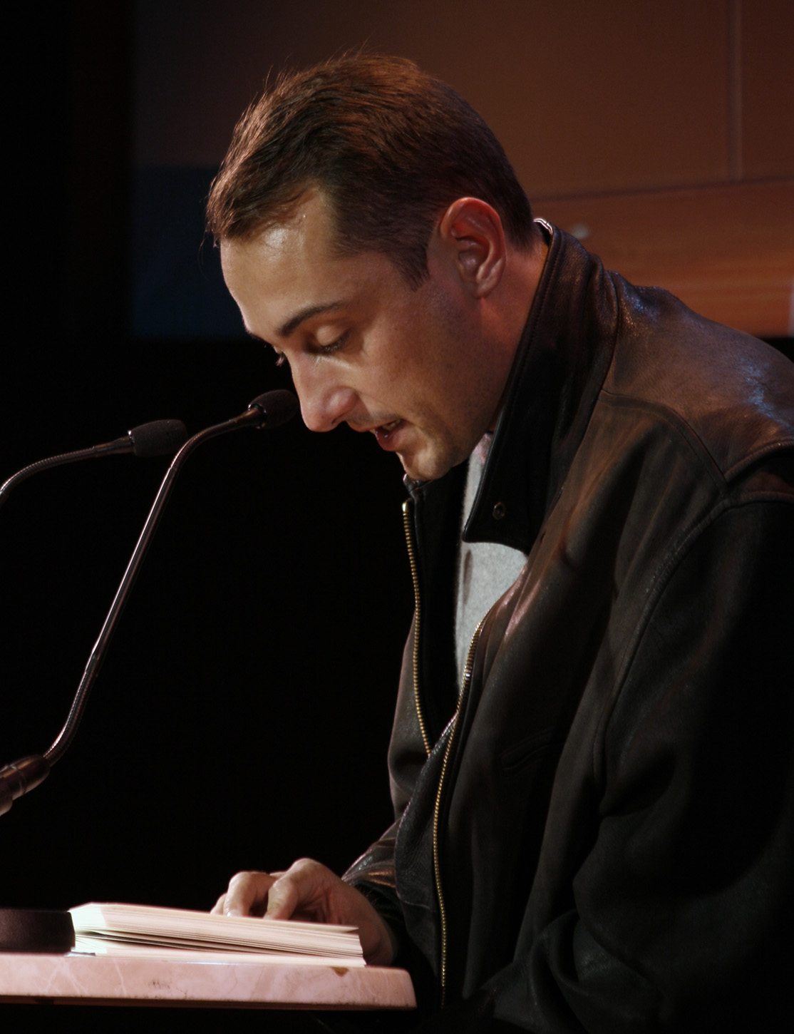 Austrian writer Xaver Bayer at a reading in Vienna.